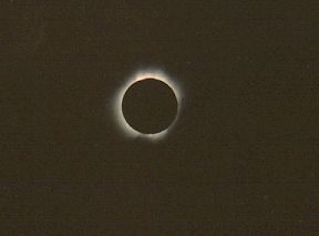 Solar eclipse of July, 11th, 1991, total phase. Taken with 35 mm camera and digitally transferred. Location: Playas del Coco, Guanacaste, Costa Rica.